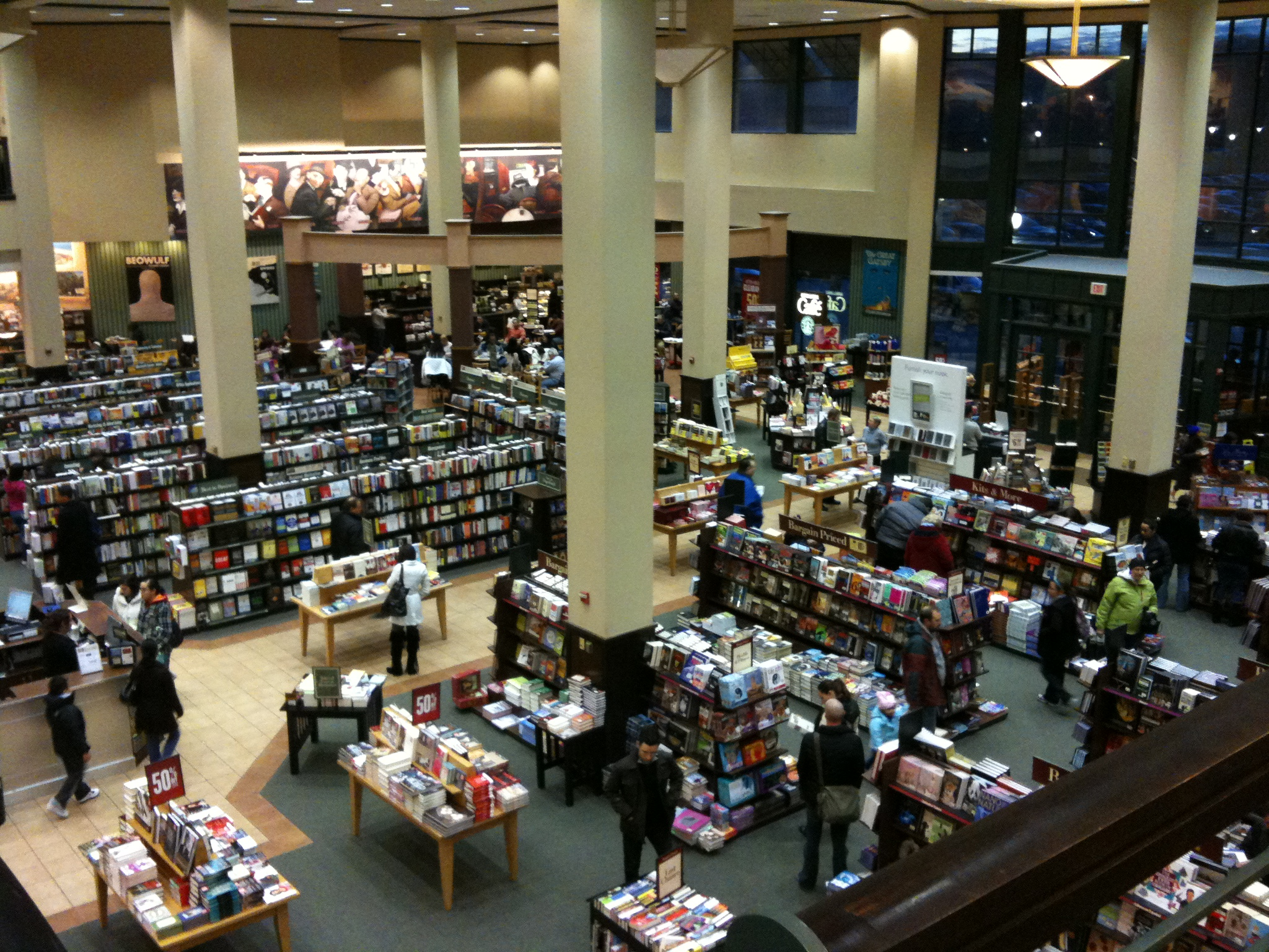 Shot of the Barnes & Noble bookstore in Clifton Commons in Clifton, New Jersey. Photo by Luigi Novi. You are free to use this photo for any purpose, as long as you credit me where it is used. (See Licensing information below.)